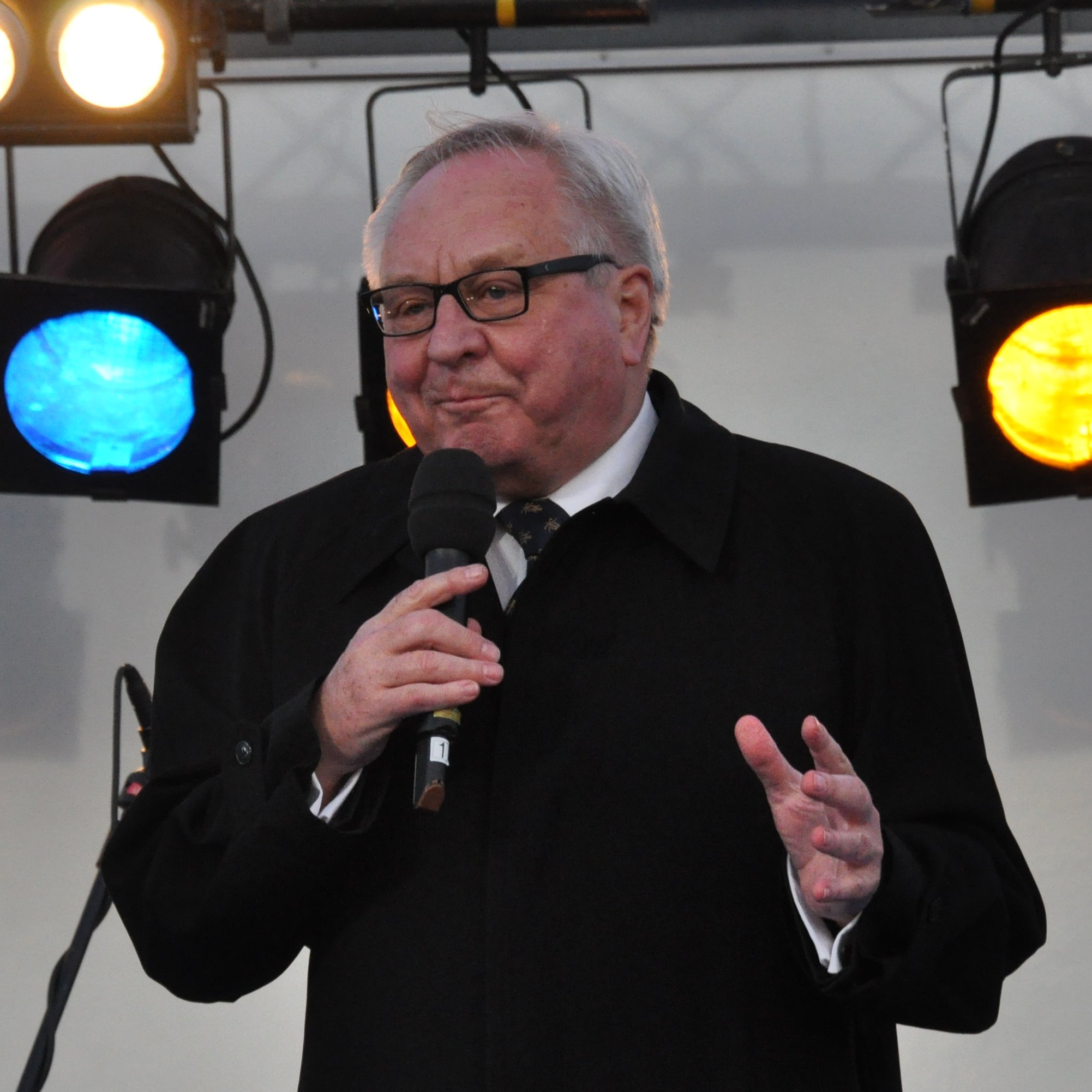 Finnish correspondent Erkki Toivanen at an EU election event in Turku, Finland 2009.